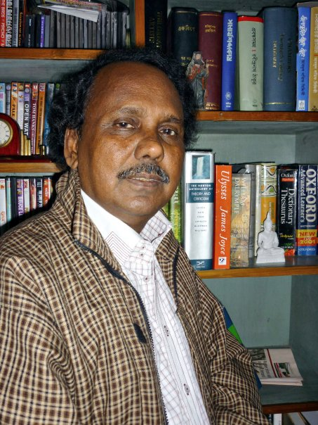 Dr. Khondakar Ashraf Hossain,Poet, Essayist, Translator & Editor of a poetry Journal of Bangladesh. Dr. Hossain is a Professor of English at The University of Dhaka, Bangladesh.